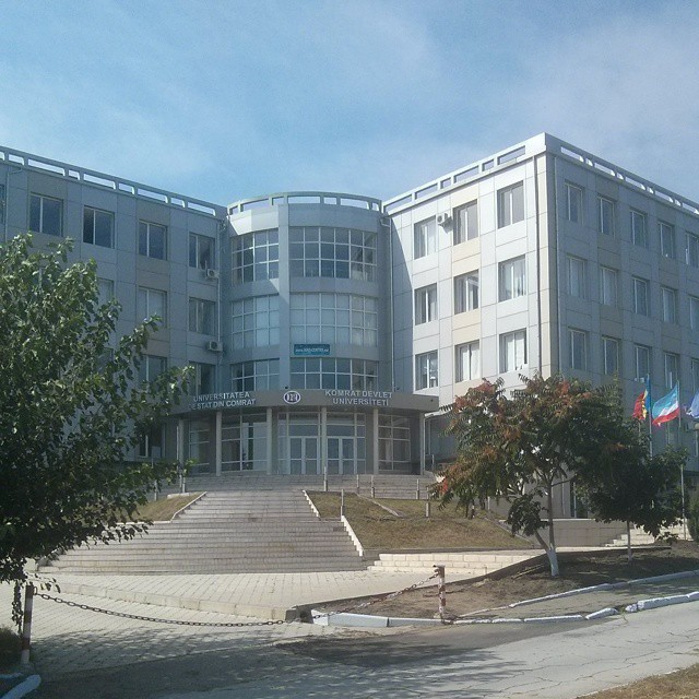 The main building of Comrat State University